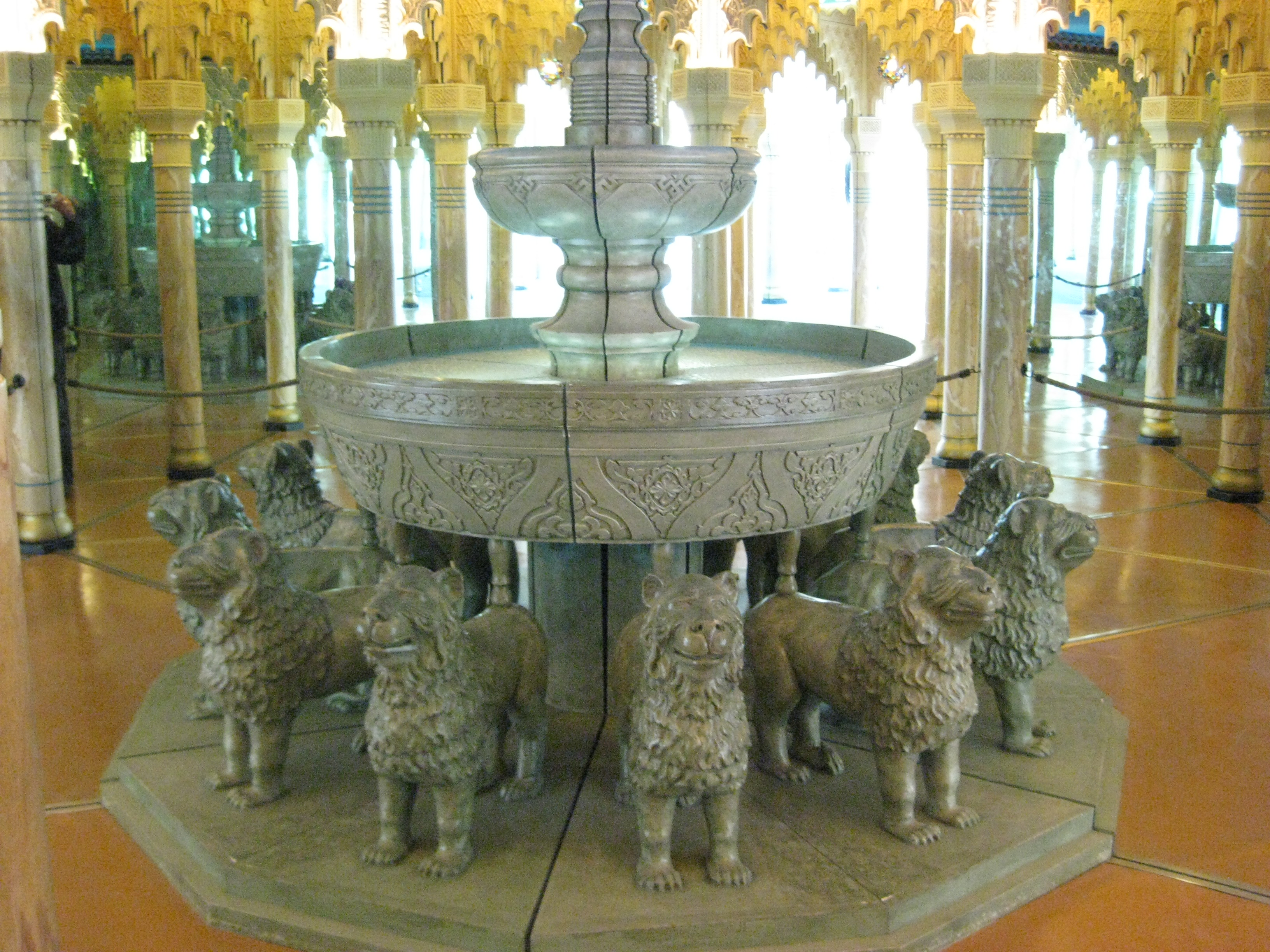 Labyrinth with mirrors in Lucerne (Alhambra)